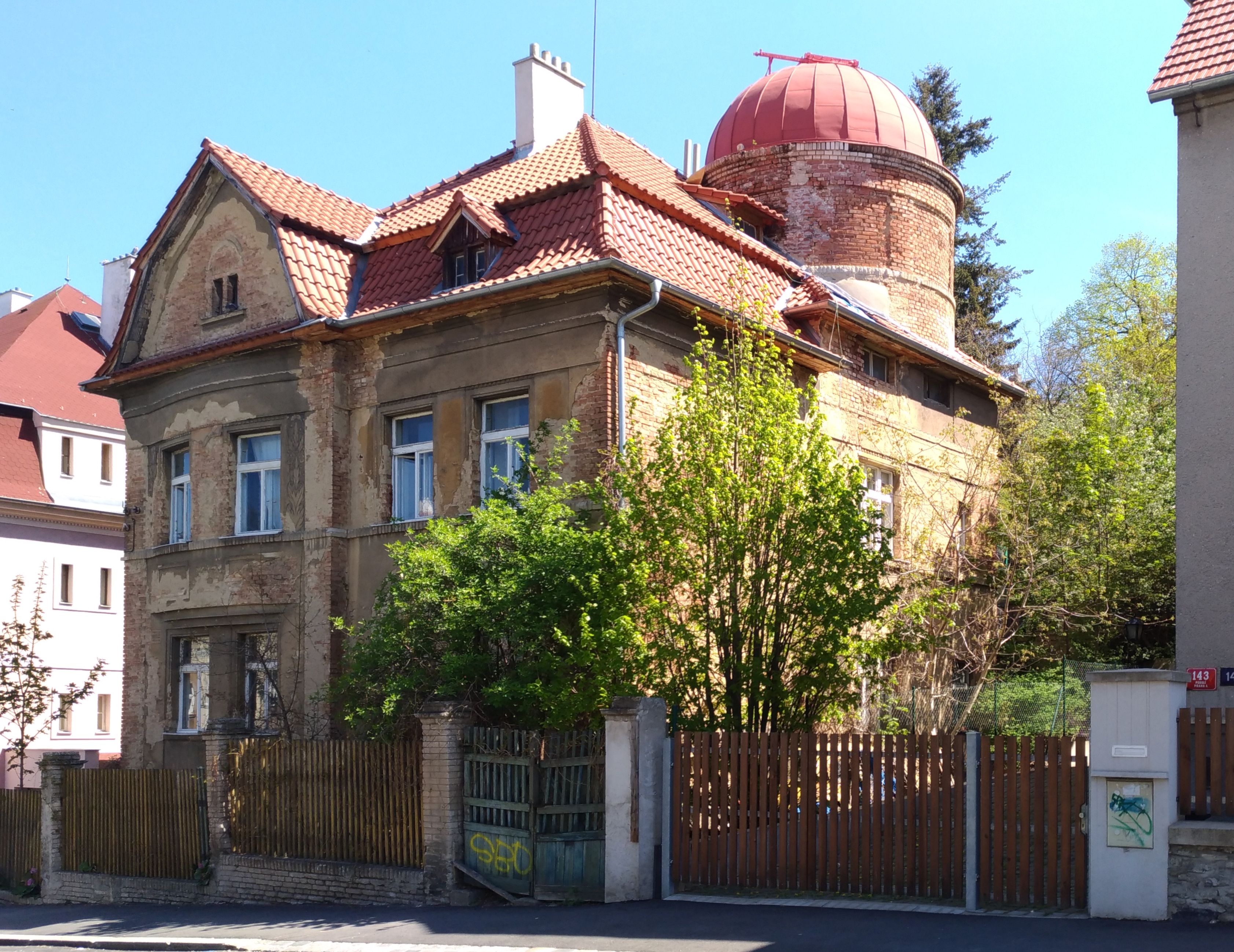 František Fischer's private observatory (1924–1966). Na Zlatnici 16, Prague-Podolí. Photo taken in April 2019.